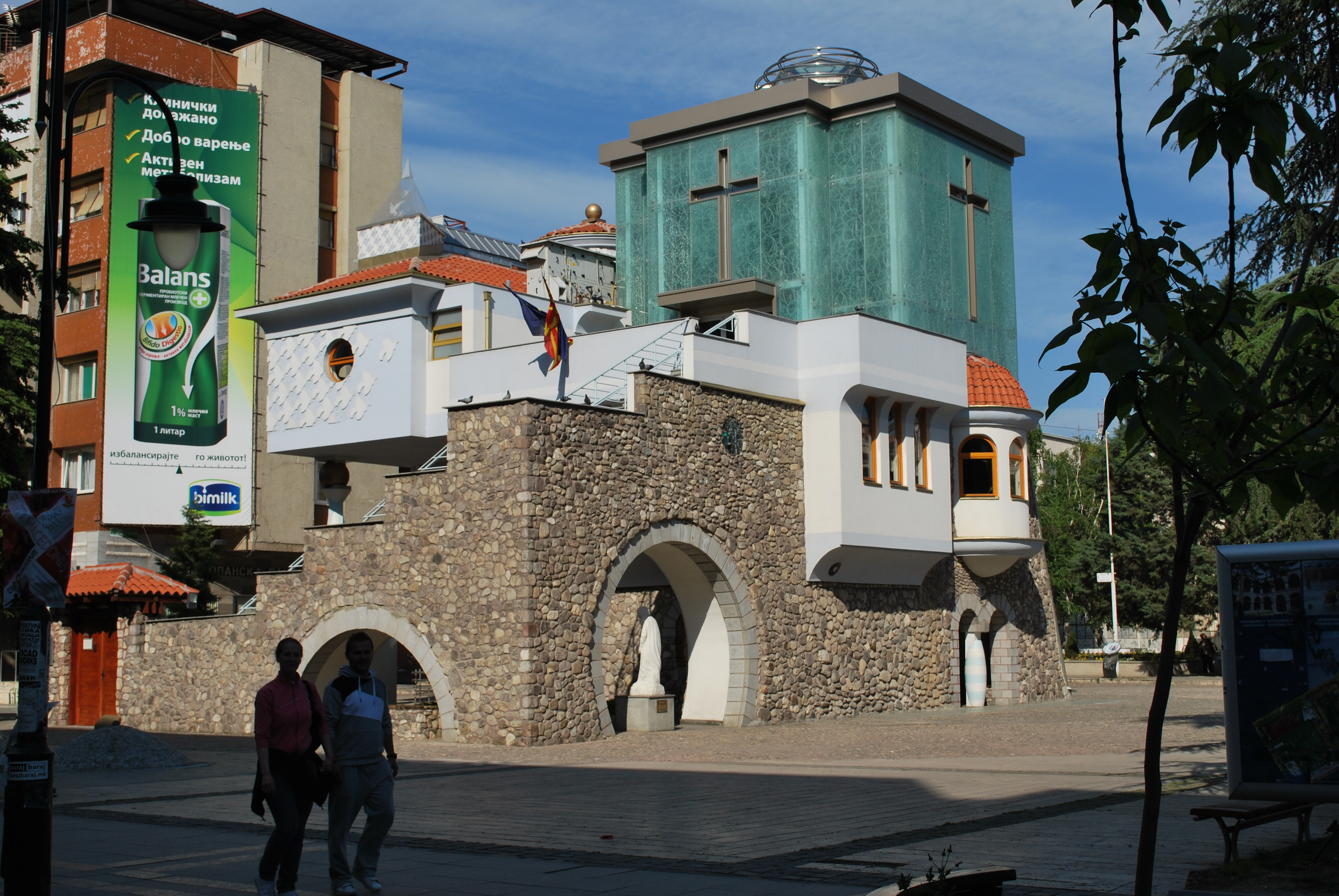 Skopje, Macedonia